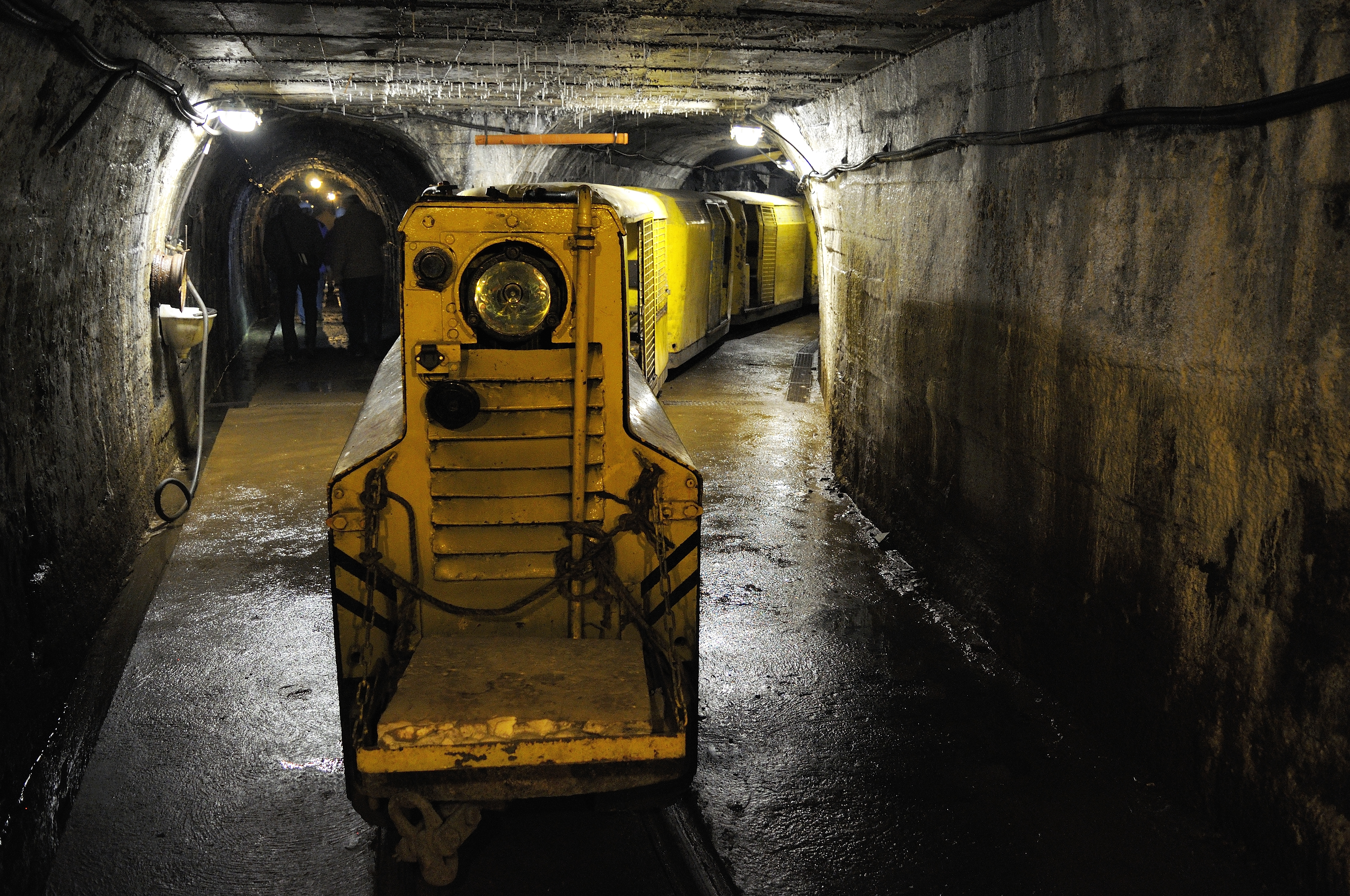 Picture taken at the project Wikipedia:Bergbau im Sauerland. Kilian tunnels.